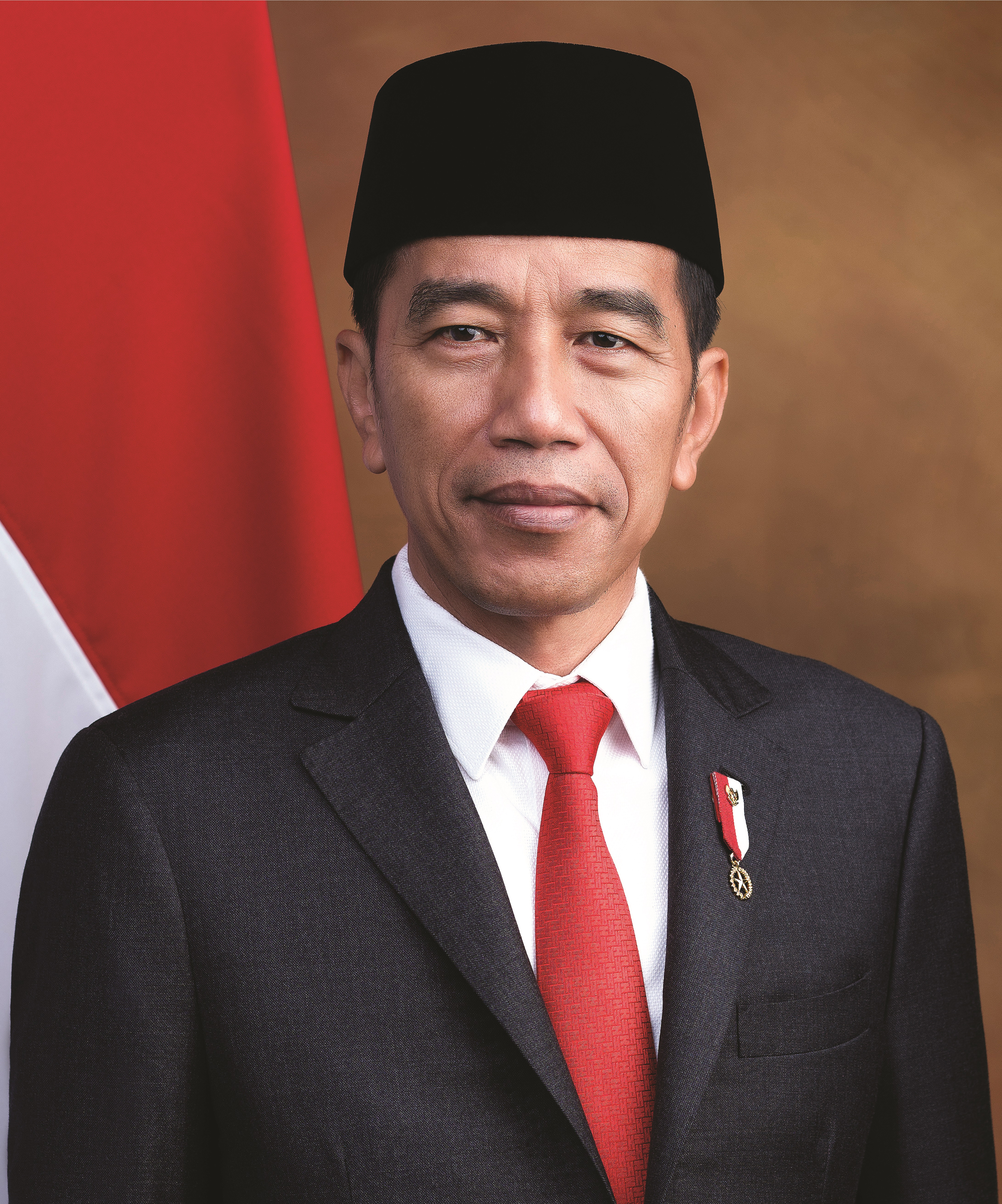 Indonesian president Joko Widodo's 2019 official portrait, uploaded by the Ministry of State Secretariat of the Republic of Indonesia.